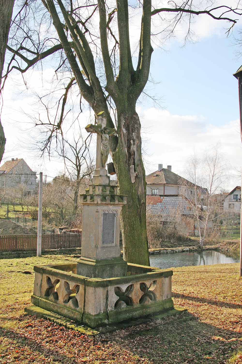 Wayside cross in Staré Nechanice, hradec Králové District, Czech Republic